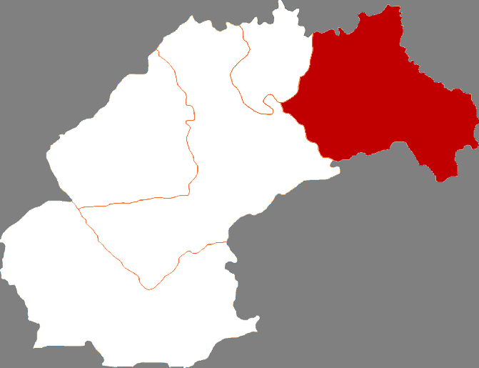 Location of Fuyu county in Songyuan City, China